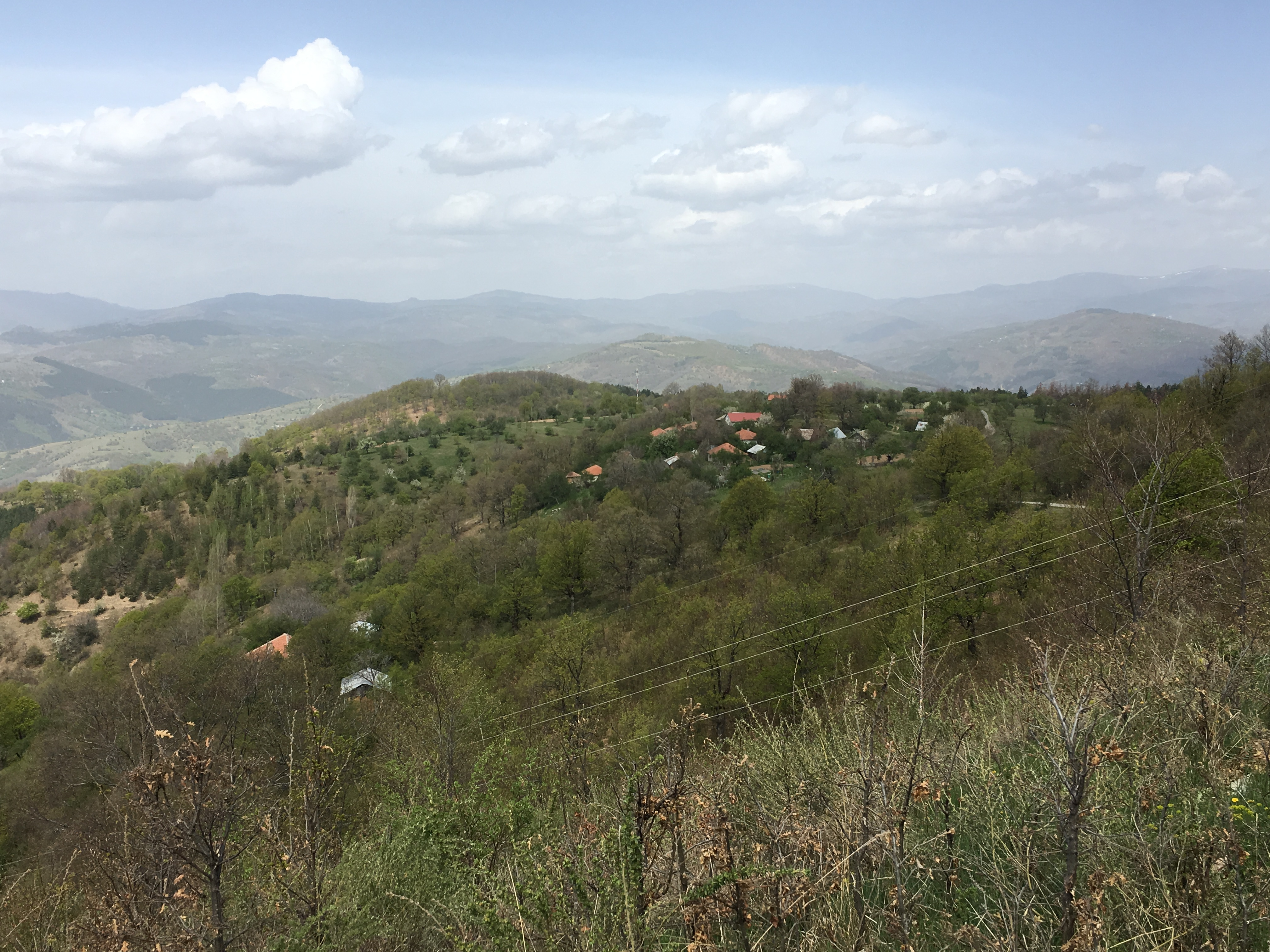 A view of Gorno Varovište mahala of the village of Varovište